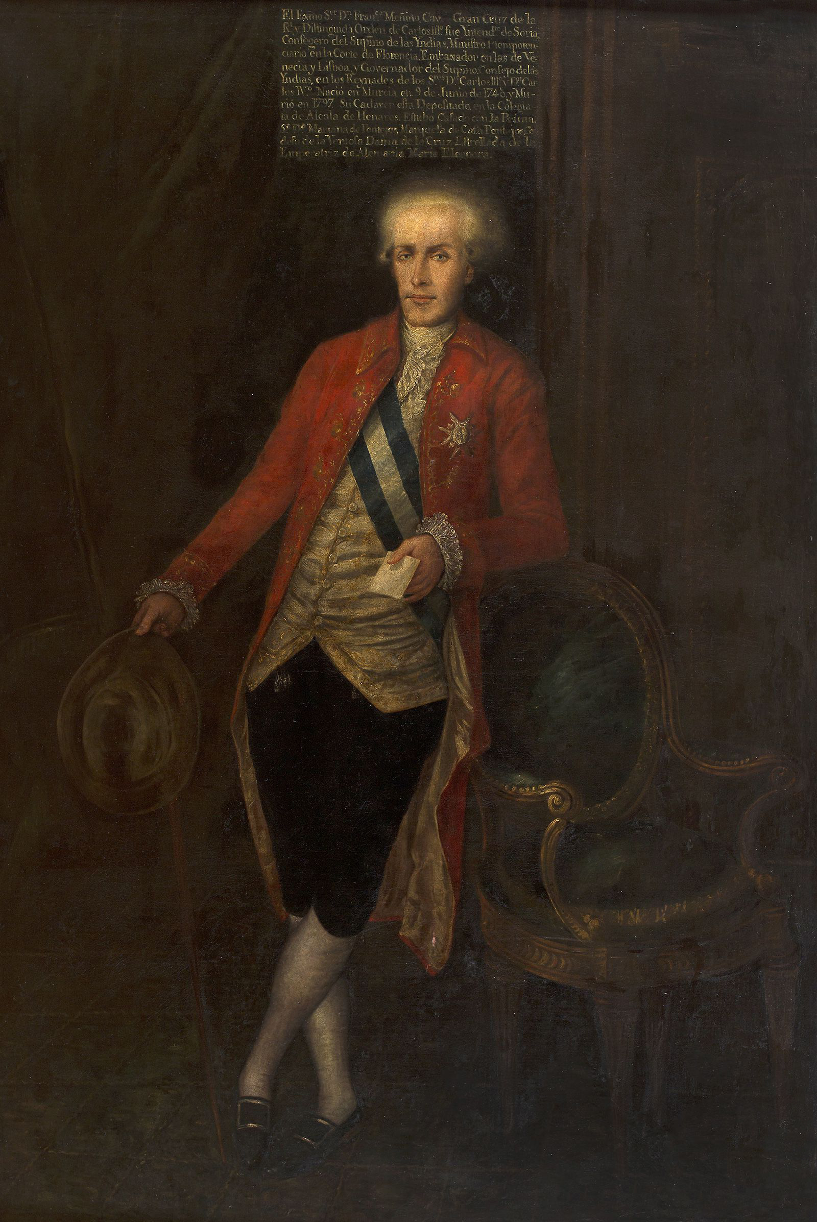 Portrait of Francisco Moñino Redondo, brother of the famous Prime Minister José Moñino, 1st Count of Floridablanca.